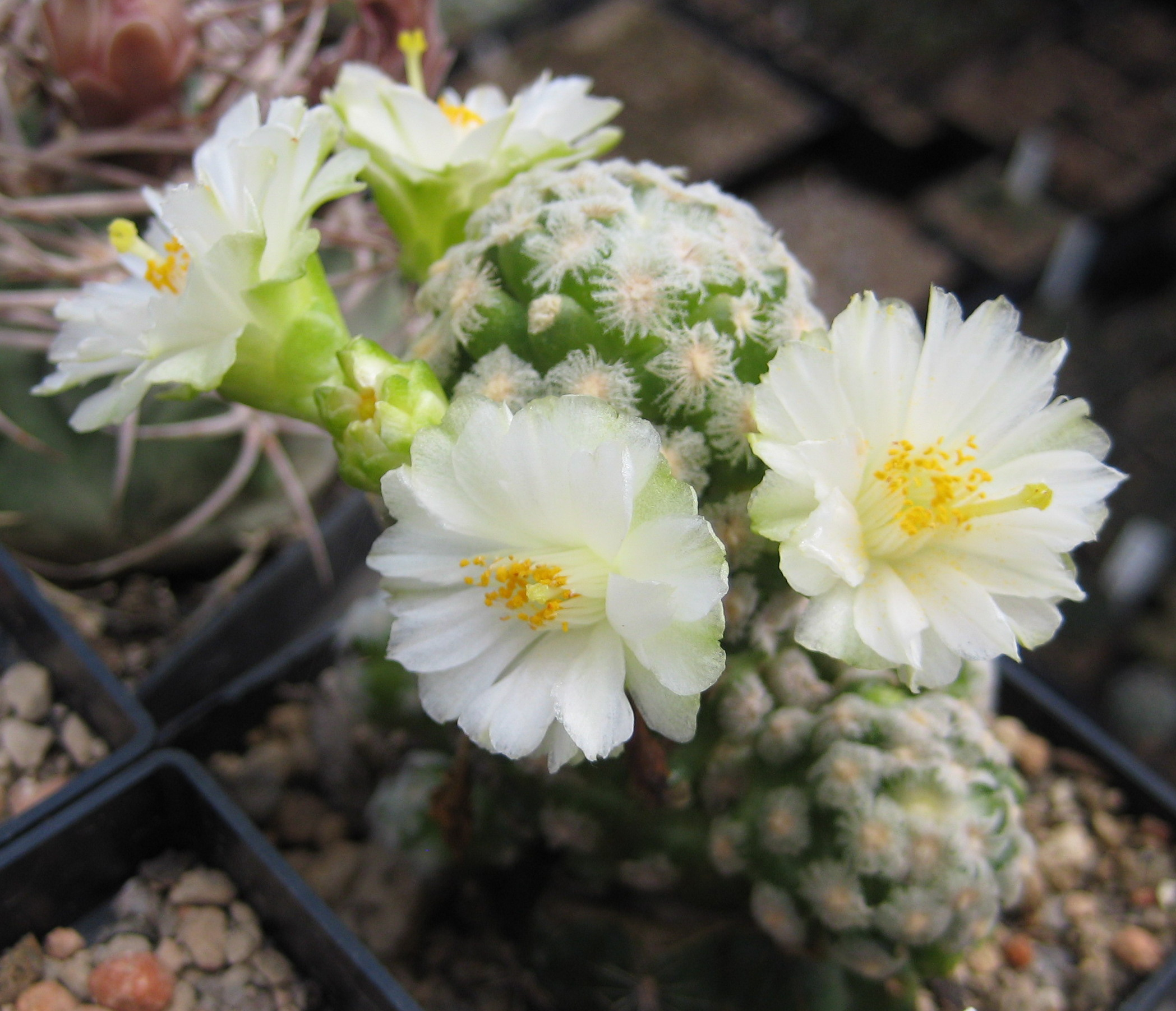 Mammillaria theresae forma albiflora